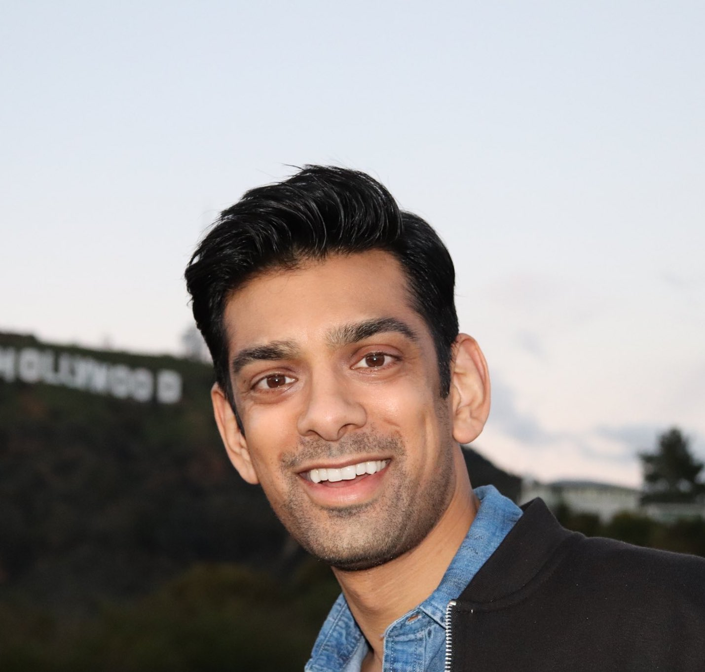 Amit Shah in 2019